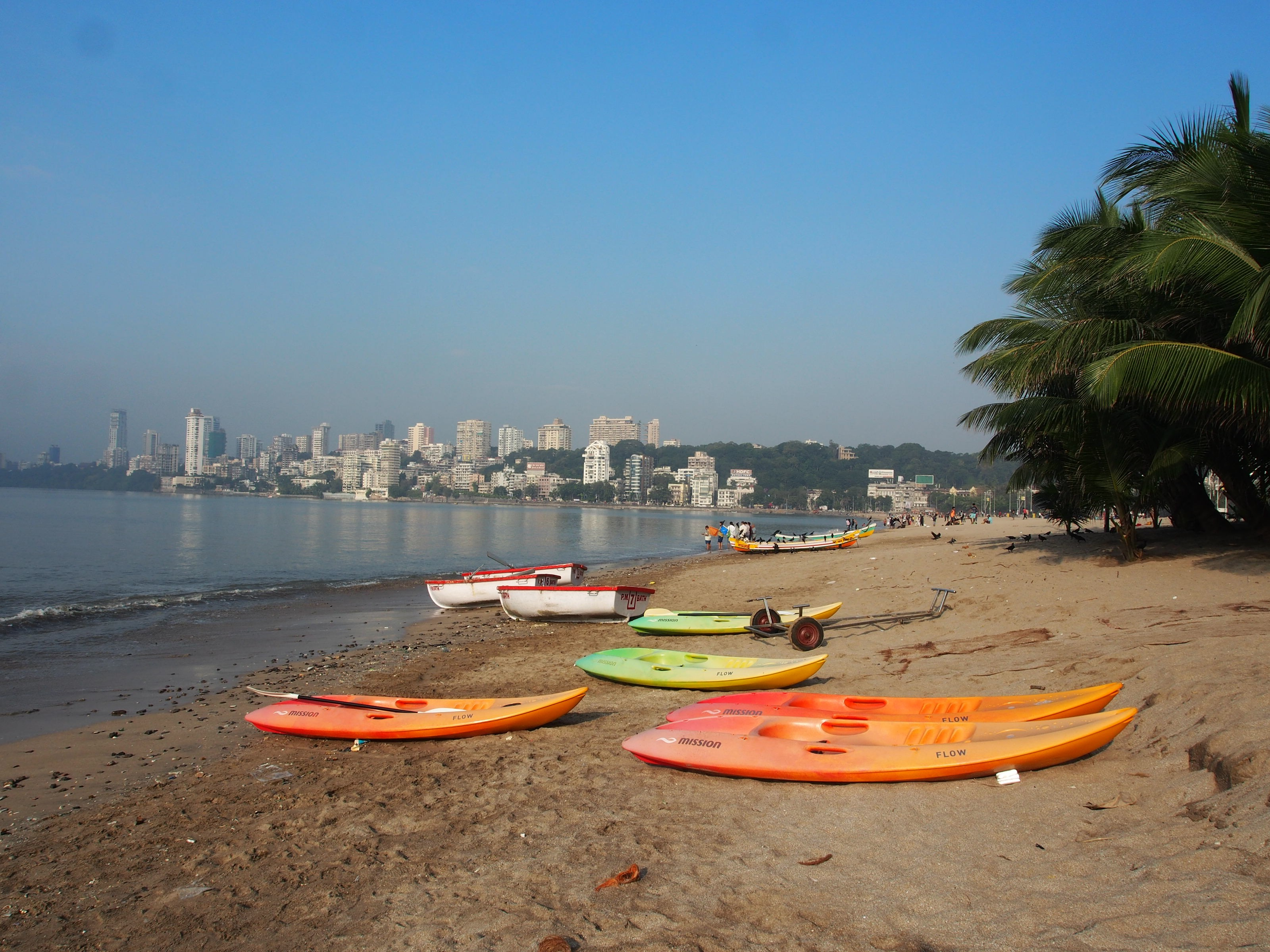 Girgaon Chowpatty Beach Corner View